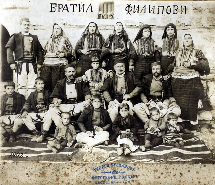 Family photo of Filipovs woodcarvers